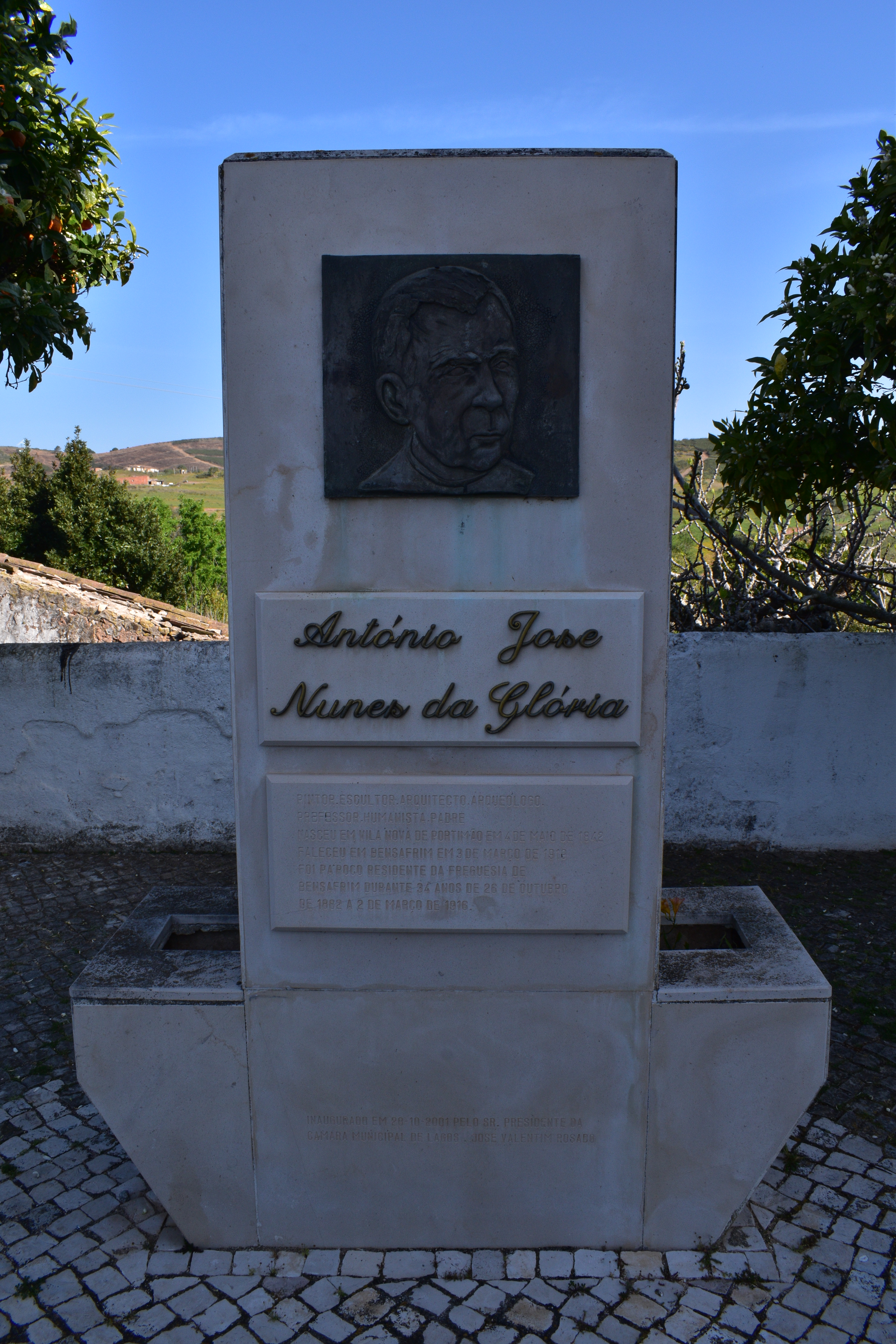 Monument to the priest and archaeologist António José Nunes da Glória, in the village of Bensafrim, part of the Lagos municipality, in southern Portugal.